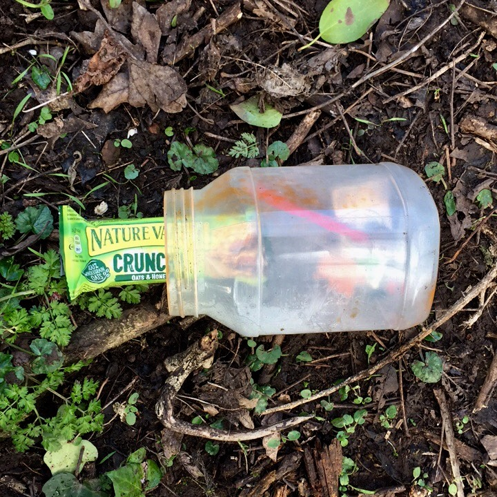 A Nature Valley Crunchy Bar in a geocache in Bristol, England. Even if sealed, food is not allowed in geocaches, as it is considered unhygienic and can attract animals.